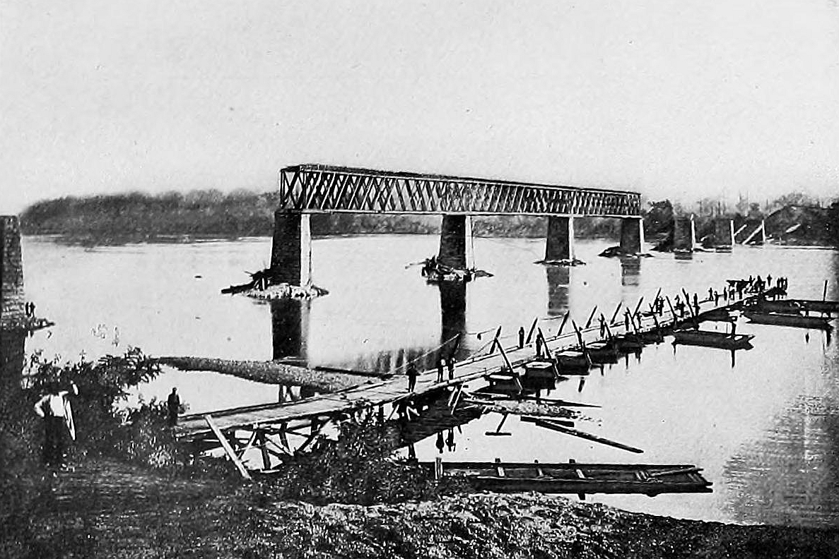 Destroyed railway bridge in Bridgeport, Alabama (1861).jpg